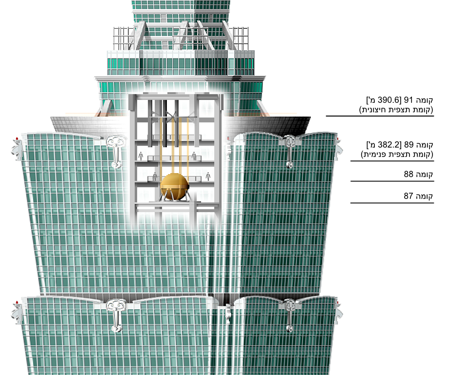 The tuned mass damper in Taipei 101